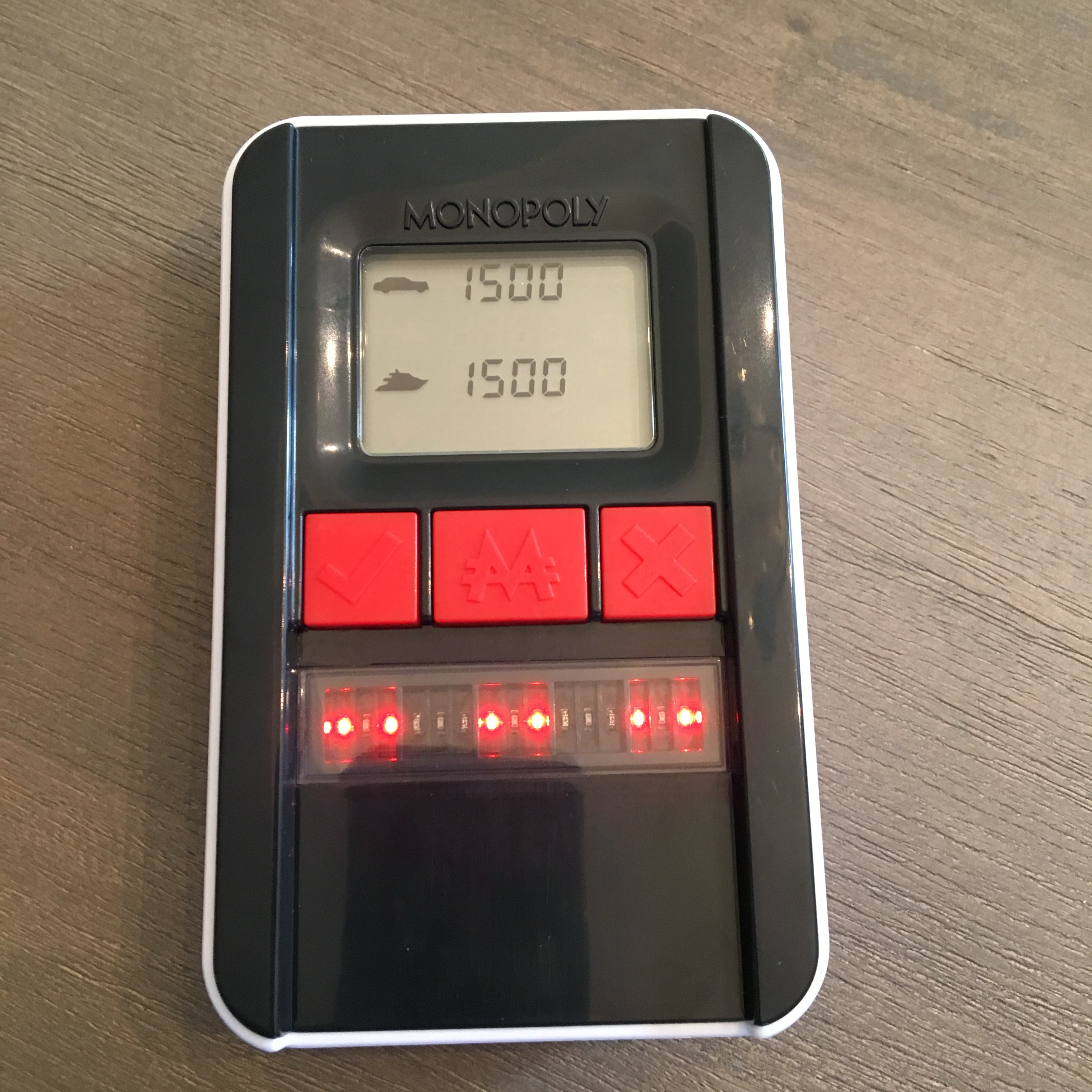 The 'Ultimate Banking Unit' from the board game, Monopoly:Ultimate Banking